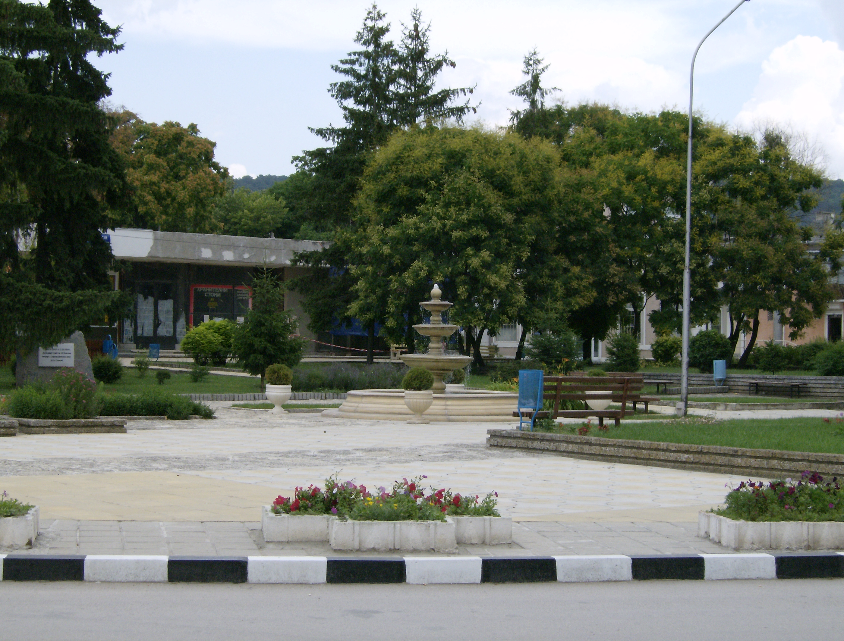 Suvorovo